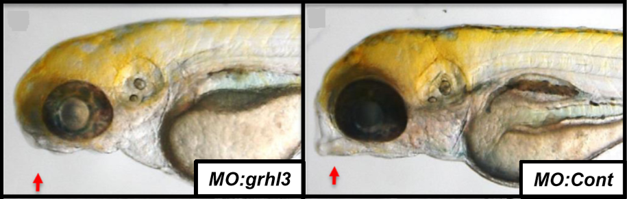 Brightfield microscopy of zebrafish, comparing control and morpholino (MO) mediated knockdown of grhl3 expression, showing that loss of grhl3 leads to defective craniofacial development. The red arrow highlights defective jaw development.